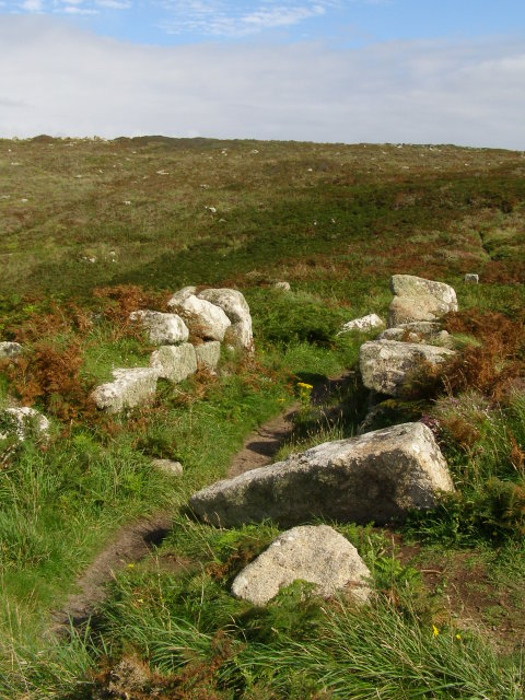 Entrance to Maen Castle. Maen Castle is an Iron Age promontory fort (or "cliff castle"), built before 300BC. The small rocky headland was defended by a stone wall, ditch and counterscarp bank. This photo shows the narrow gateway to the fort, looking back out towards the mainland - a small National Trust sign nearby points out the castle entrance for the unaware. The gateway is well-preserved and made of massive blocks of granite: an abundant local building material. On the far side of the entrance is one of the former gate jambs, lying partly in the gateway passage. There are remains of a contemporary field system on the slope overlooking the site.